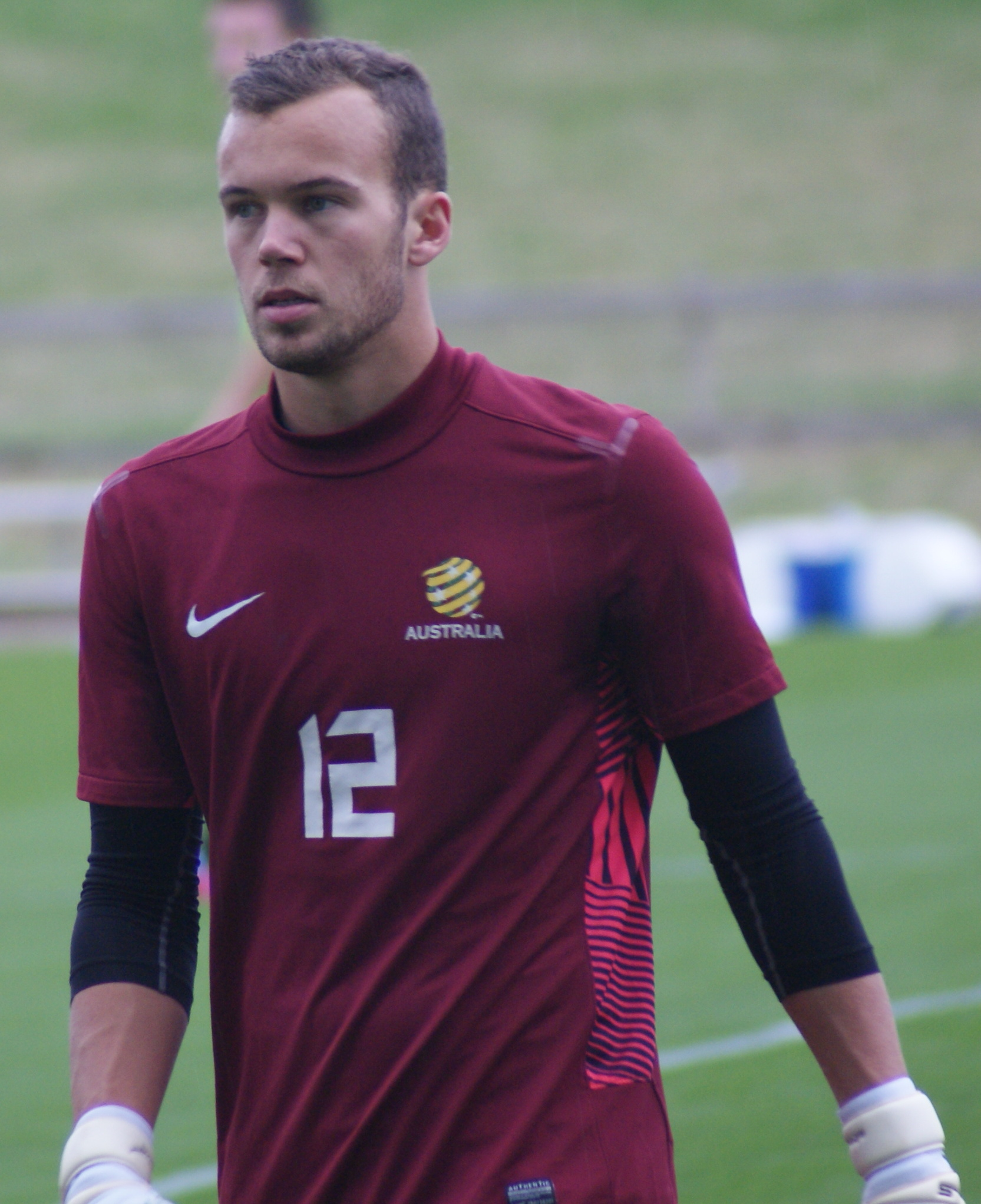 Jack Duncan in action for Australia U-20 national team.